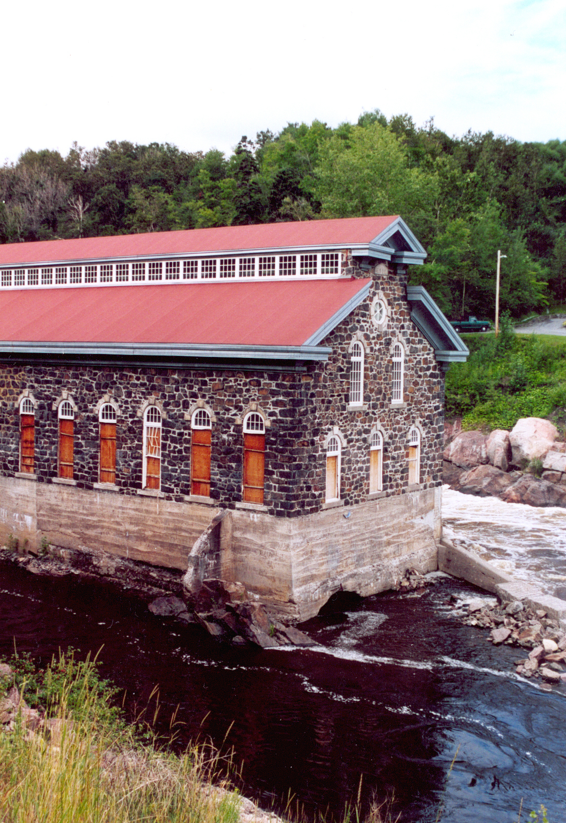 Chicoutimi's pulp and paper mill, Quebec Province, Canada